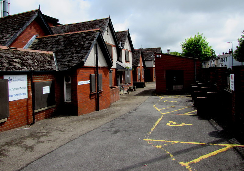 Yellow marked area, Tredegar General Hospital